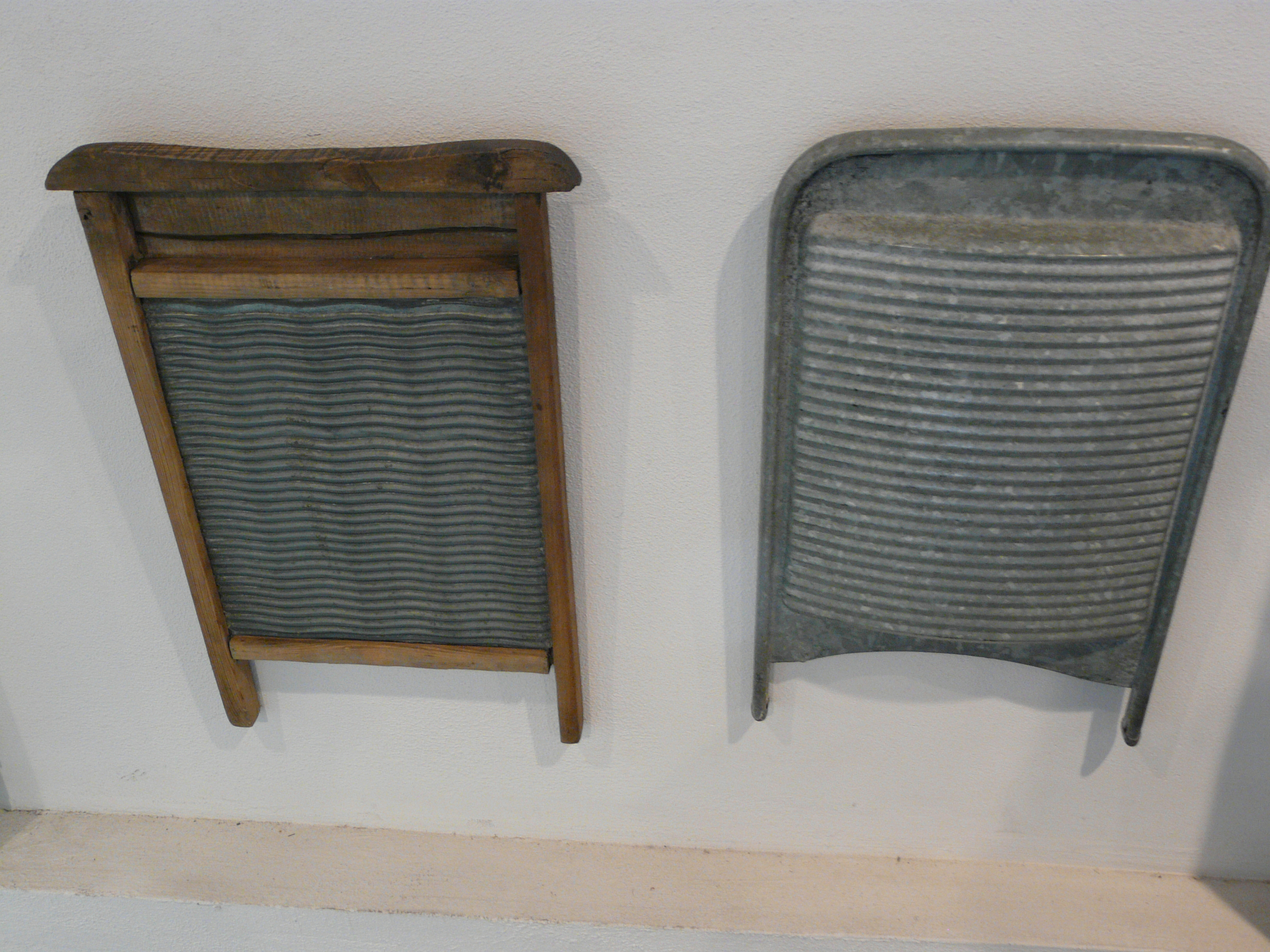 Katowice, Nikiszowiec. Muzeum Historii Katowic. From the collections: "U nos w doma na Nikiszu" (depictions of average households, pics 18-49) and "Woda i mydło najlepsze bielidło" (depictions of communal laundry, pics 5-17).